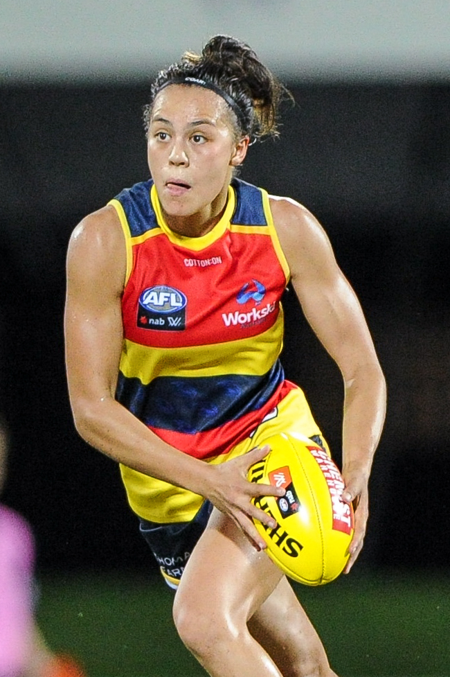 Justine Mules in the AFL Women's preseason match between the Adelaide Football Club and Fremantle Football Club on 20 January 2018 at TIO Stadium.